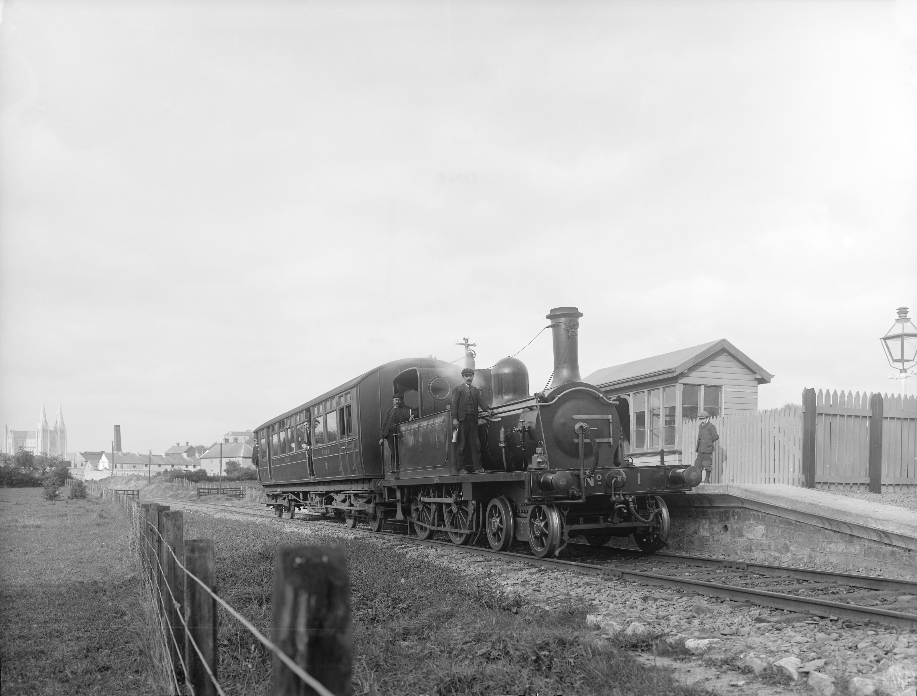 Railway station at Irish street Halt. 1909 Photograph by H.T. Allison PRONI Ref: D2886/A/1/2/5